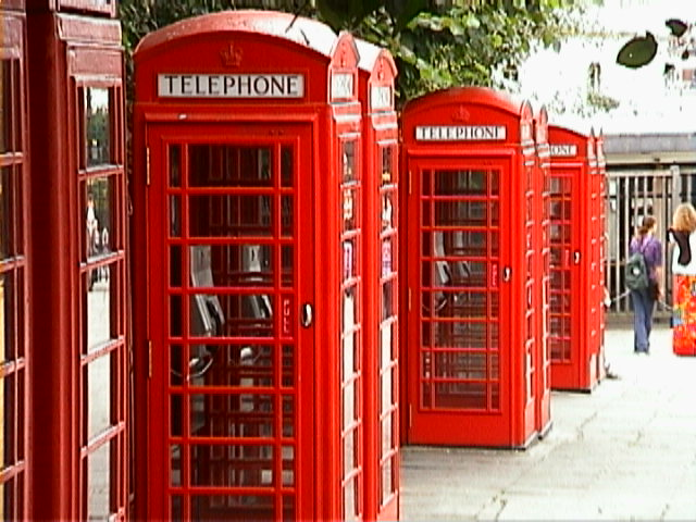 Typical London red telephone boxes. In Tower Hill, London, immediately to the west of the Tower of London (near what was then the taxi rank for Tower Millenium Pier). The area was extensively redeveloped and pedestrianised in 2003 and these phone boxes have since been removed.